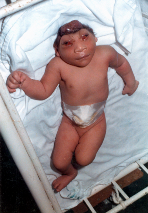 Anencephalus acranius